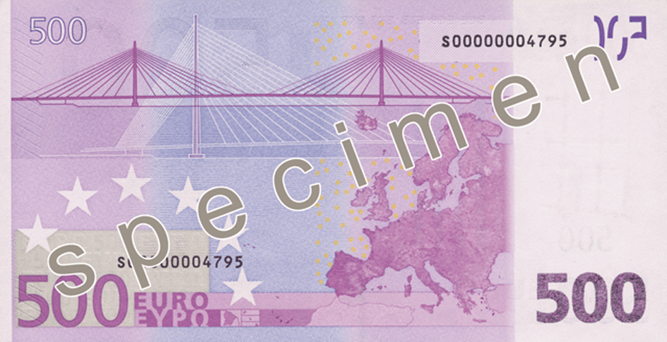 Reverse side of the €500 banknote